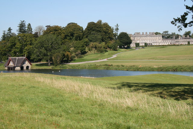 Carton House, Maynooth, Co. Kildare, Ireland, in 2017 the "Carton House Hotel". Boathouse in the foreground. Carton House is one of Ireland's grandest stately homes, having once been the ancestral home of the Earls of Kildare and the Dukes of Leinster. Located on the Rye River, the boathouse is thought to have been built for one of Queen Victoria's visits to Carton. The Queen reportedly had a dream that she was rowing on the lake at Carton so it is said the owners built the boathouse and commissioned a special boat for her visit.